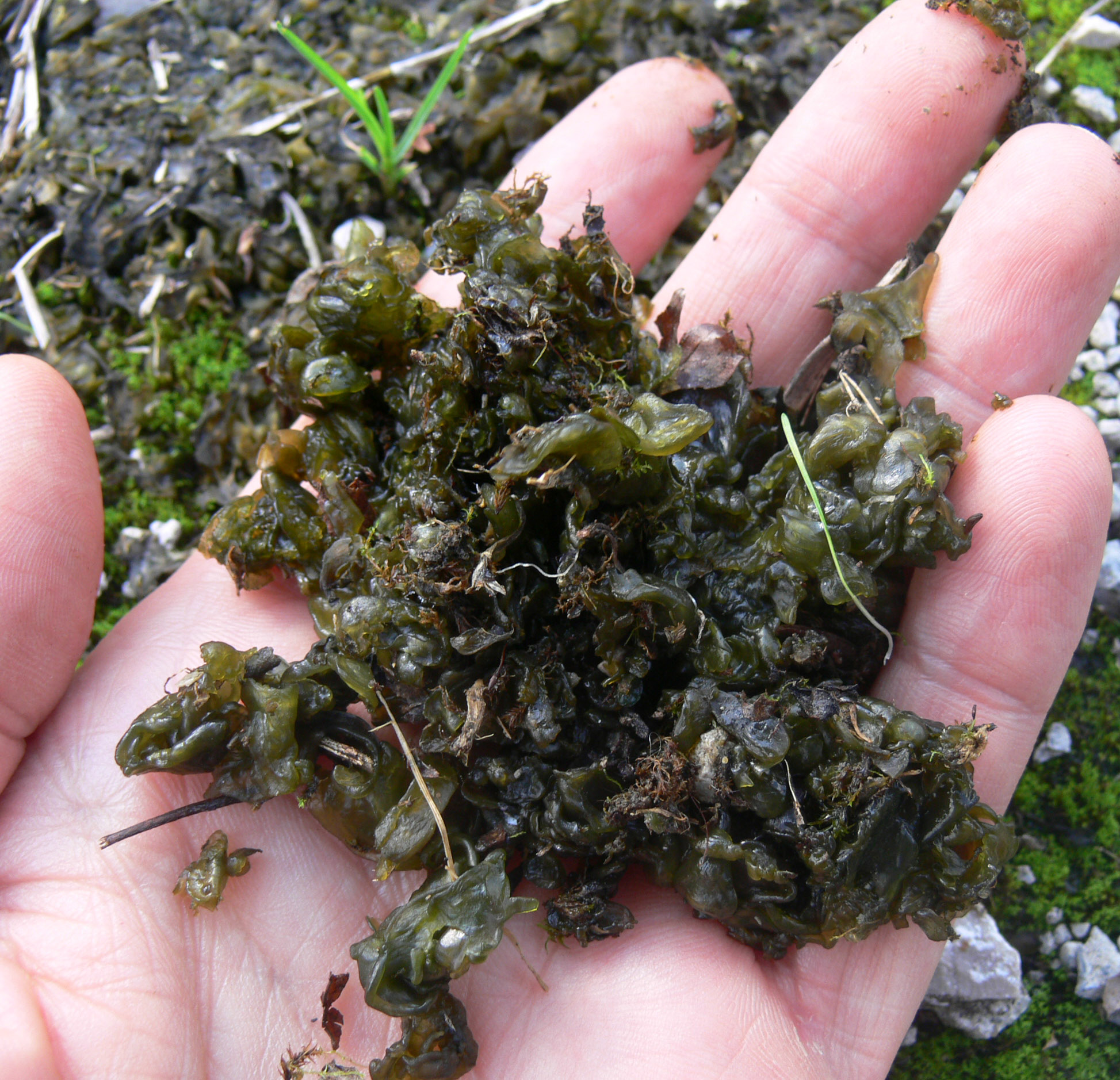 Nostoc (primitive bacteria) collected on a path of limestone materials (metal-rich; industrial waste from the metallurgical factory Sollac of Dunkirk (now Arcelor-Mital), on the edge of the channel of Noeufossé, on the territory of Renescure (North County ) The place is locally named pont Asquin ("Asquin Bridge.")